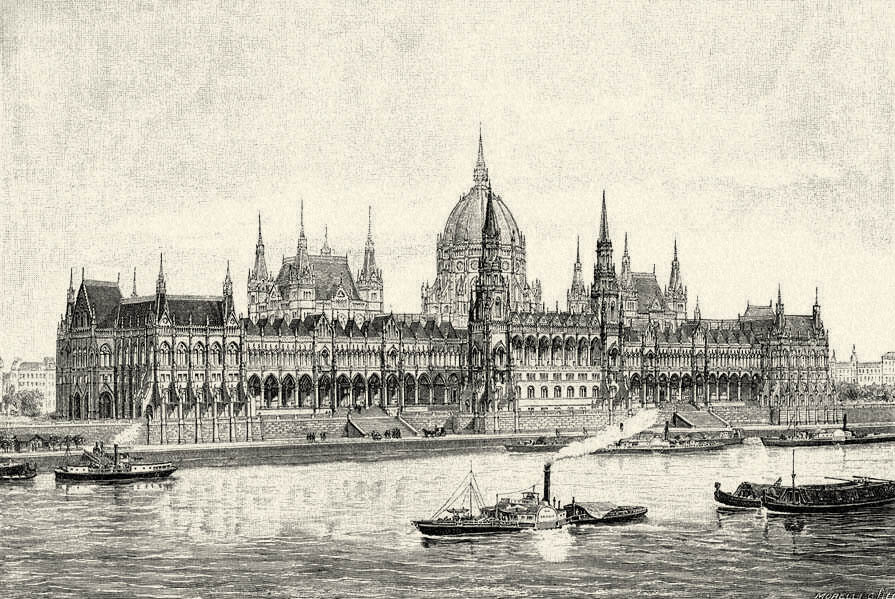 Hungarian Parliament Building